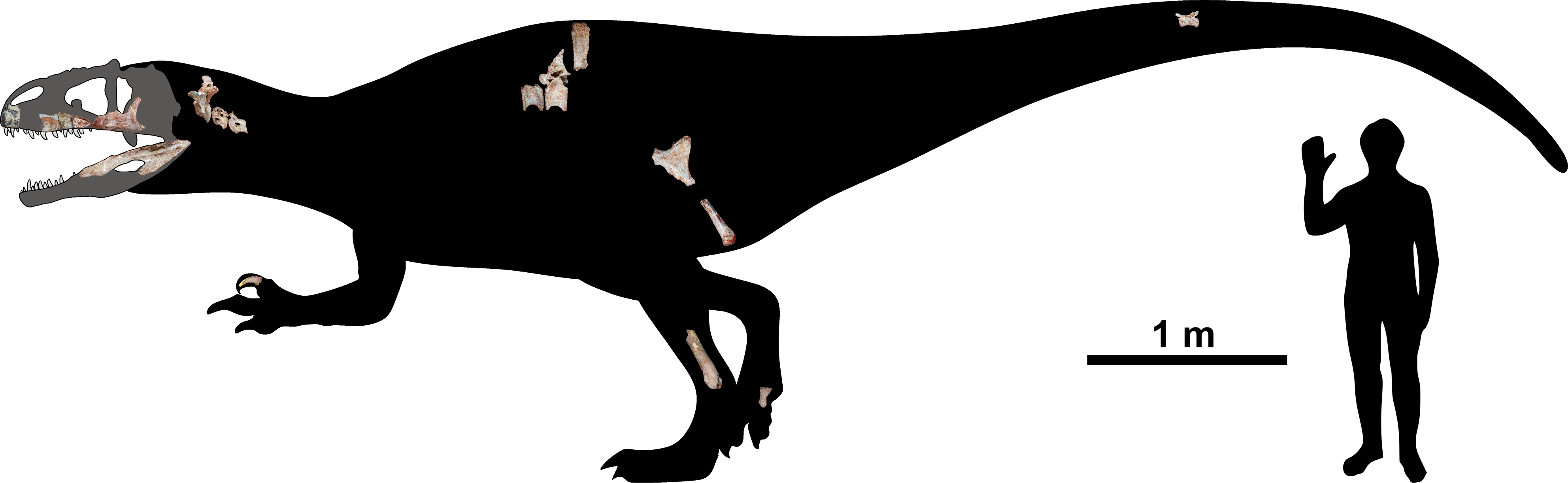 Skeletal reconstruction of Siamraptor suwati. Cranial elements were scaled to fit in with the holotype (surangular). Human size = 1.8 m. Scale bar = 1 m. Human silhouette has been added to the original image.